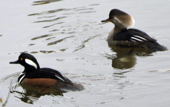 Hooded Merganser pair at Martinez, CA beaver pond